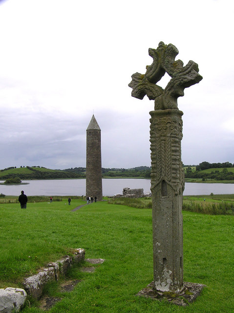 Cross, Devenish Island And the tower is in the background